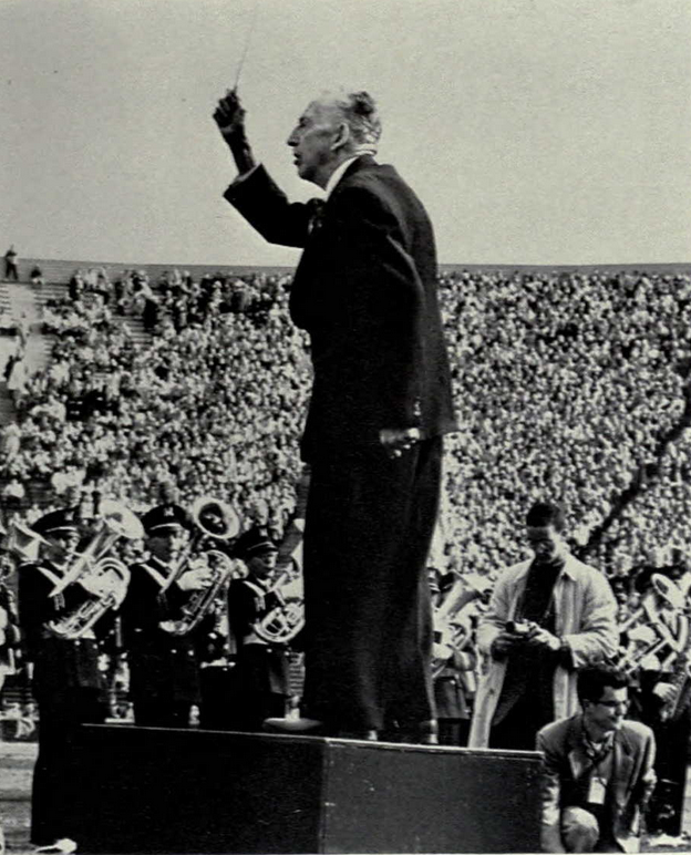 Photograph of Louis Elbel conducting the Michigan Marching Band in "The Victors," 1958 This work is in the public domain because it was published in the United States between 1923 and 1963 and although there may or may not have been a copyright notice, the copyright was not renewed. Unless its author has been dead for the required period, it is copyrighted in the countries or areas that do not apply the rule of the shorter term for US works, such as Canada (50 pma), Mainland China (50 pma, not Hong Kong or Macao), Germany (70 pma), Mexico (100 pma), Switzerland (70 pma), and other countries with individual treaties. See Commons:Hirtle chart for further explanation. This work is in the public domain in the United States because it was published in the United States between 1923 and 1977 without a copyright notice. See Commons:Hirtle chart for further explanation. Note that it may still be copyrighted in jurisdictions that do not apply the rule of the shorter term for US works (depending on the date of the author's death), such as Canada (50 p.m.a.), Mainland China (50 p.m.a., not Hong Kong or Macao), Germany (70 p.m.a.), Mexico (100 p.m.a.), Switzerland (70 p.m.a.), and other countries with individual treaties.